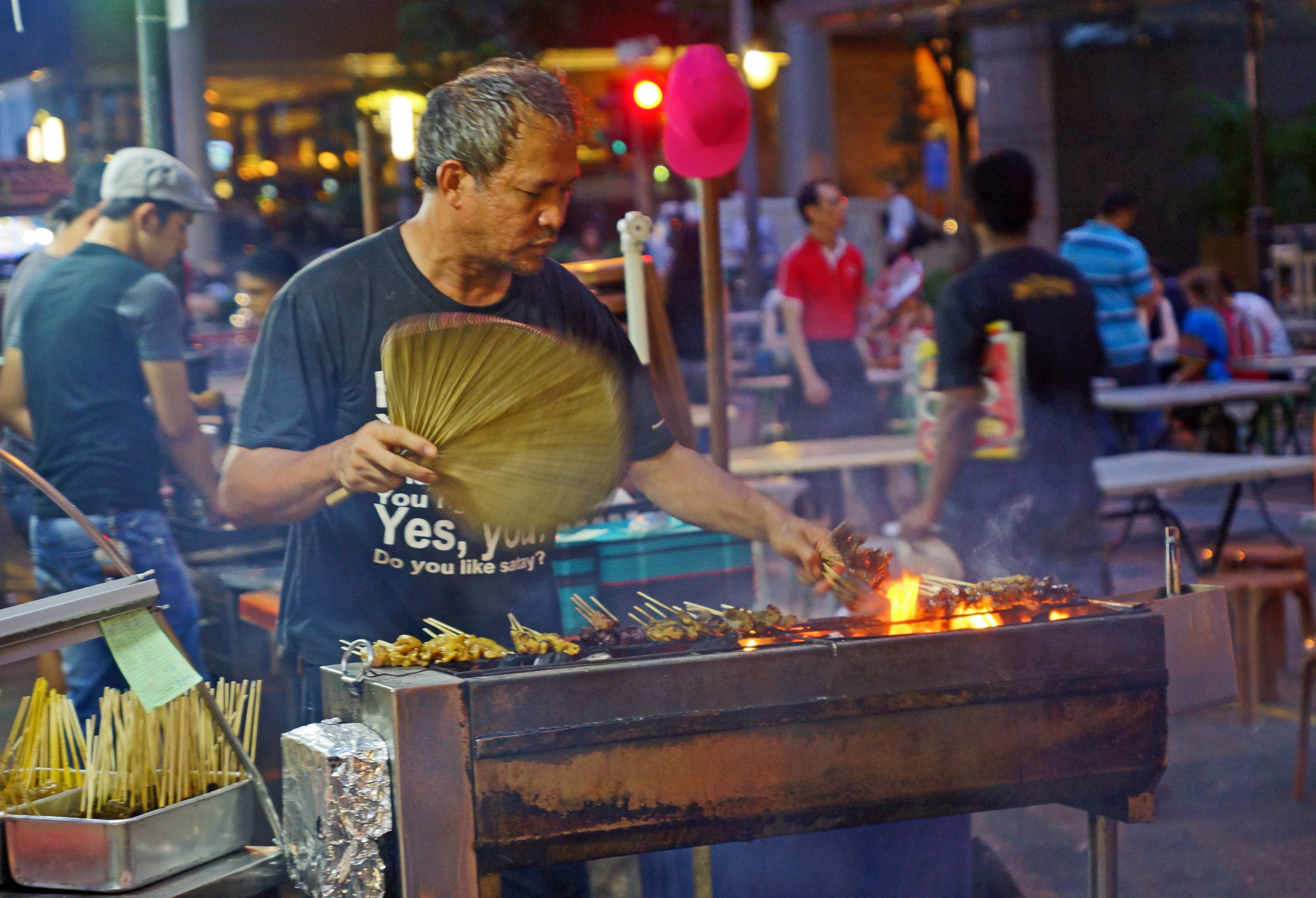 Satay stalls along Boon Tat Street next to Telok Ayer Market (commonly known as Lau Pa Sat), Singapore.